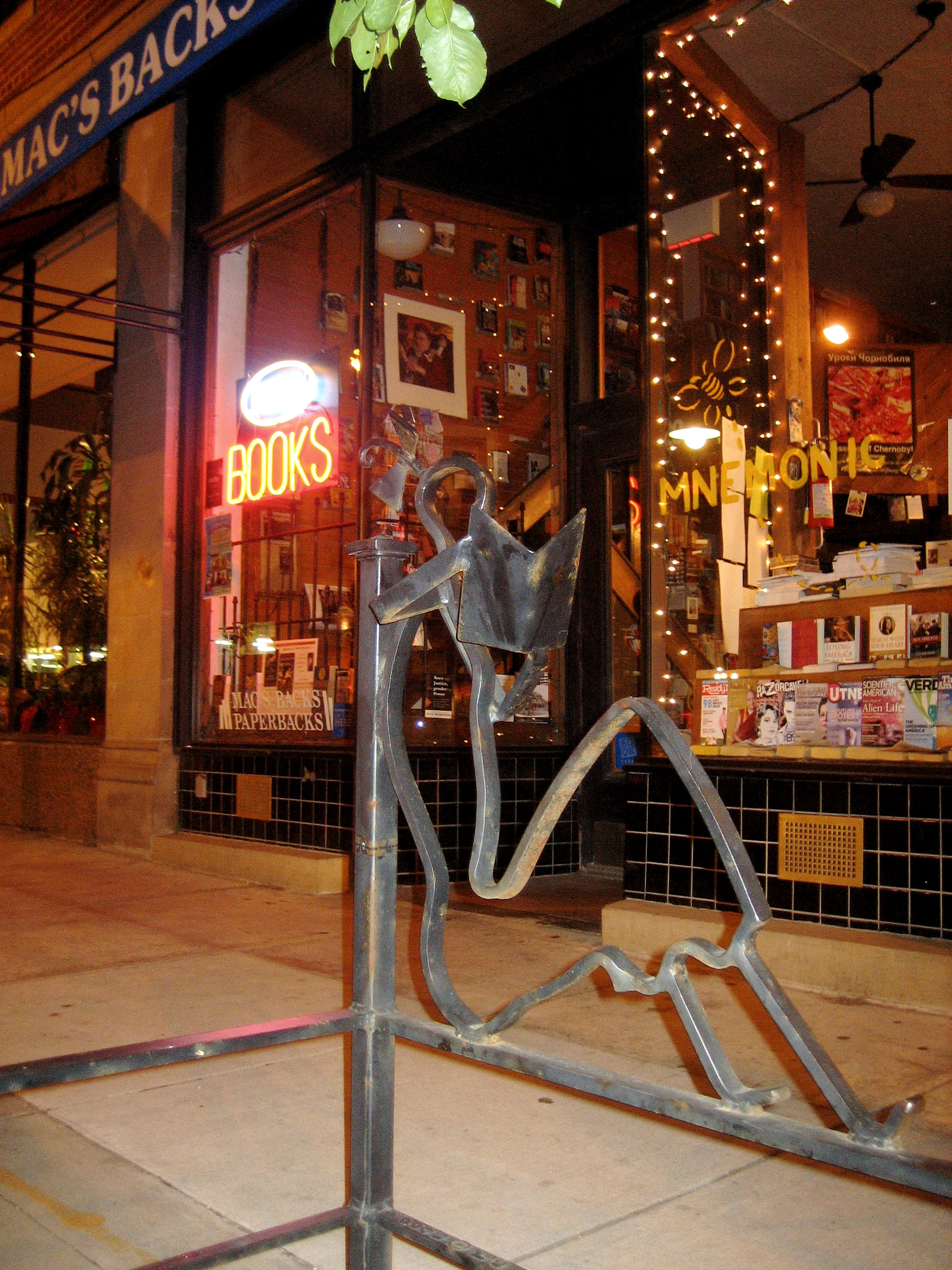 Mac's Backs bookstore on Coventry Road in Cleveland, OH, at night. Photo by Geoffrey A. Landis, 2007